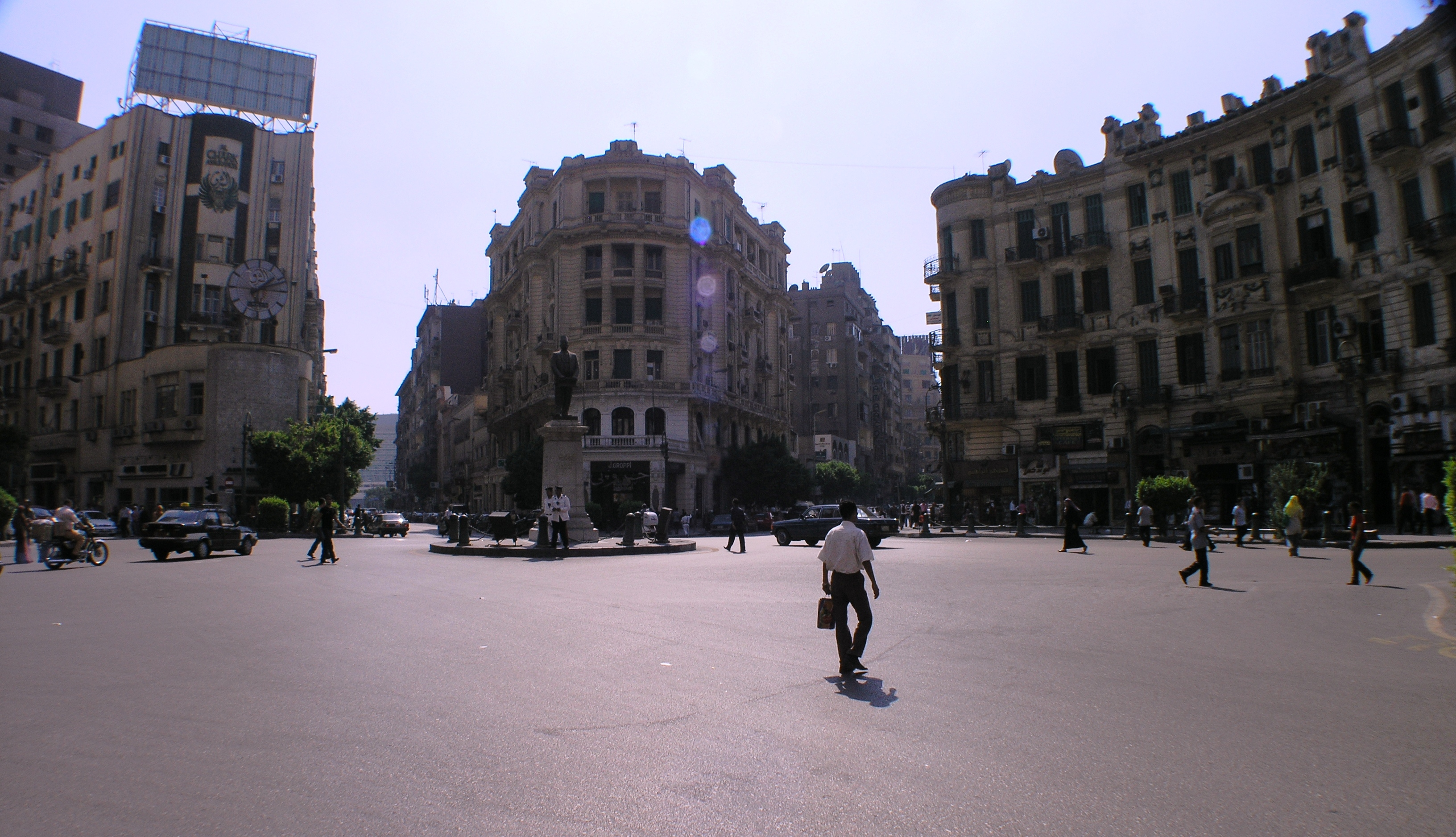 Cairo - Downtown - Talaat Harb Square